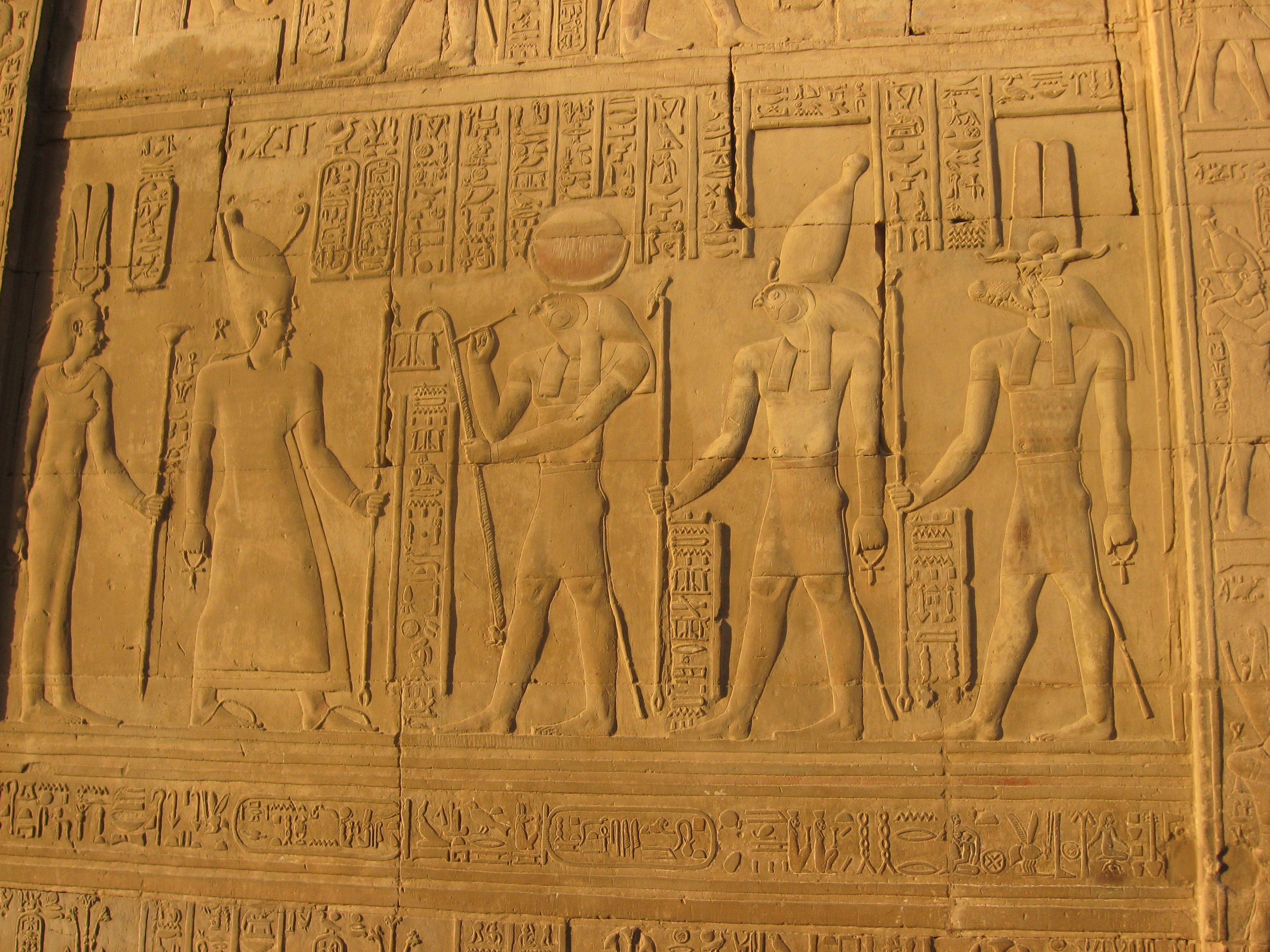 Kom Ombo Temple